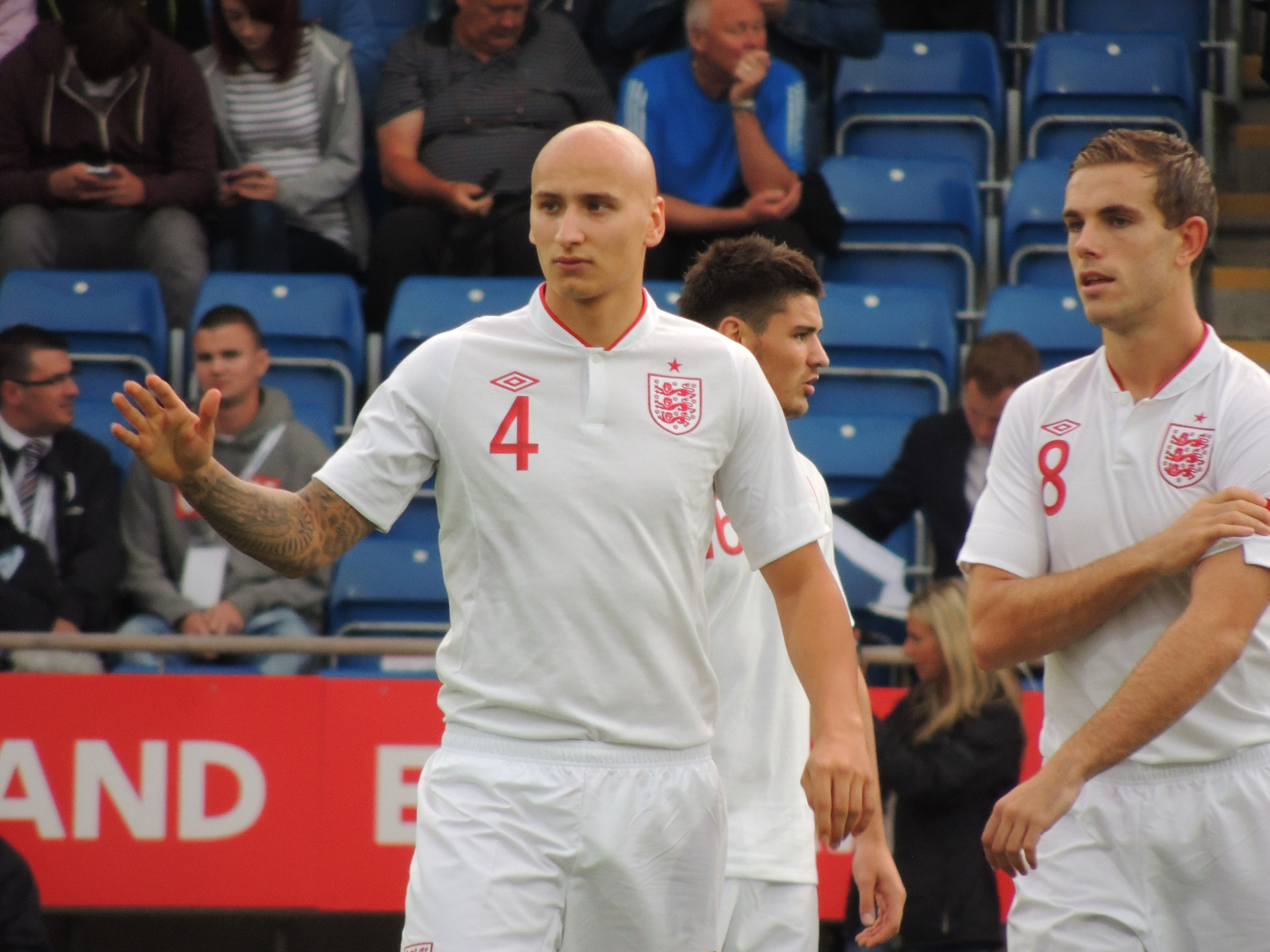 Jonjo Shelvey and Jordan Henderson playing for England U-21.